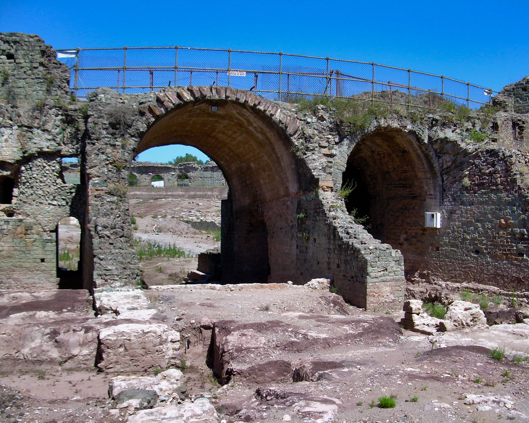 Roman amphitheatre of Fréjus or Forum Julii, Var, France